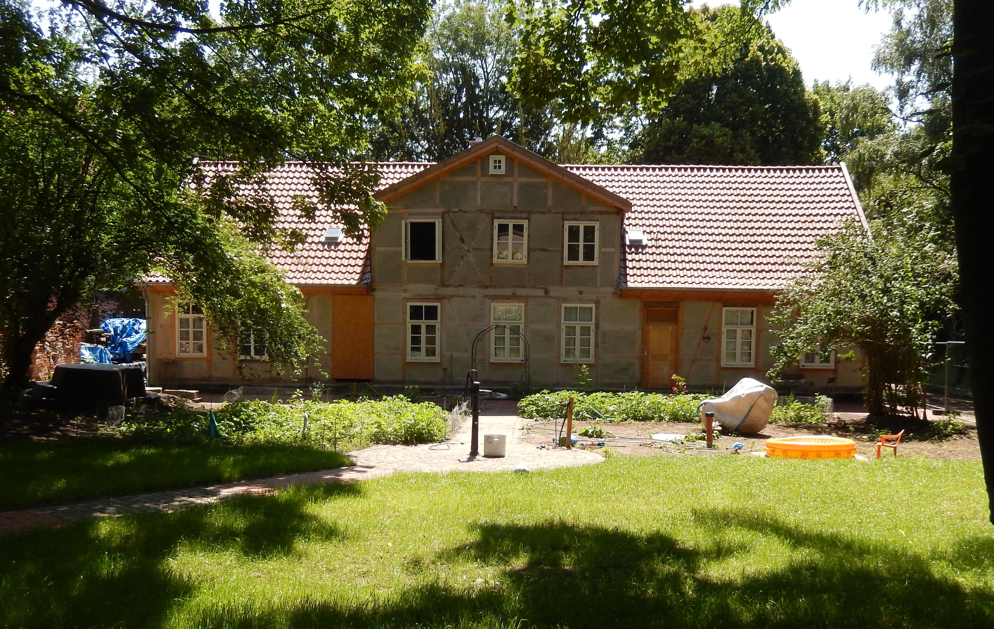 Das Gartenhaus in Hannover, Germany.